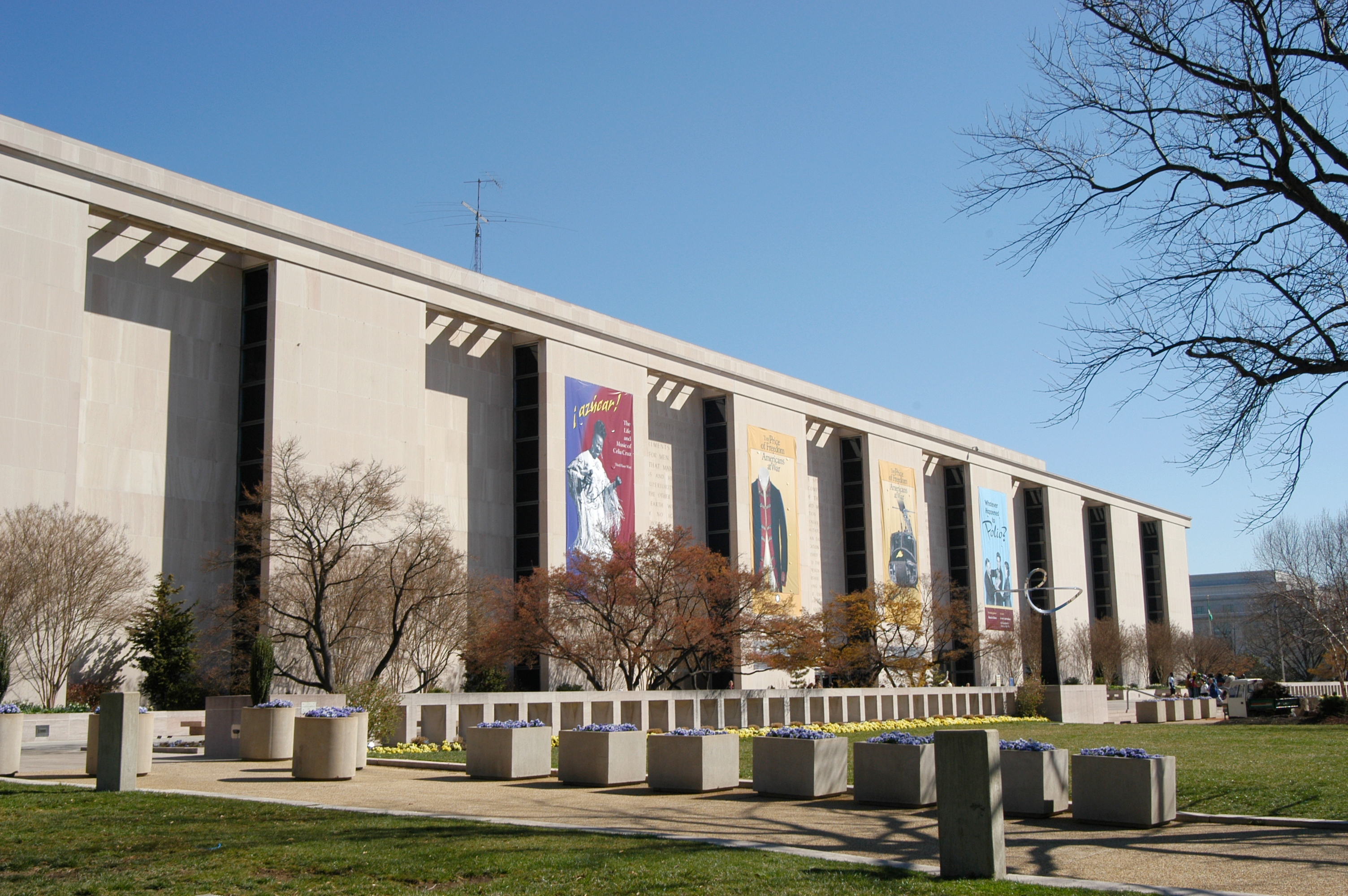 National Museum of American History, on the National Mall in Washington, DC.